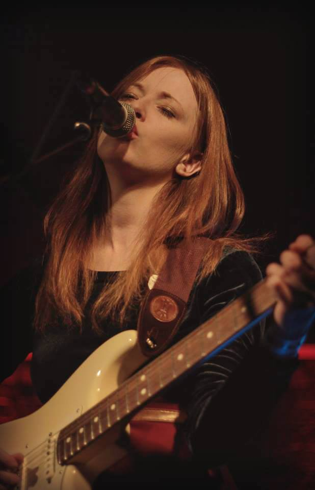 Taken at The Cookie Jar, Leicester on the 29th of November.